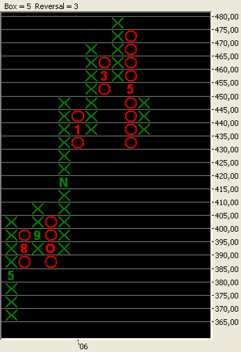 Point and Figure chart , Gemaakt met Wall Street Professional